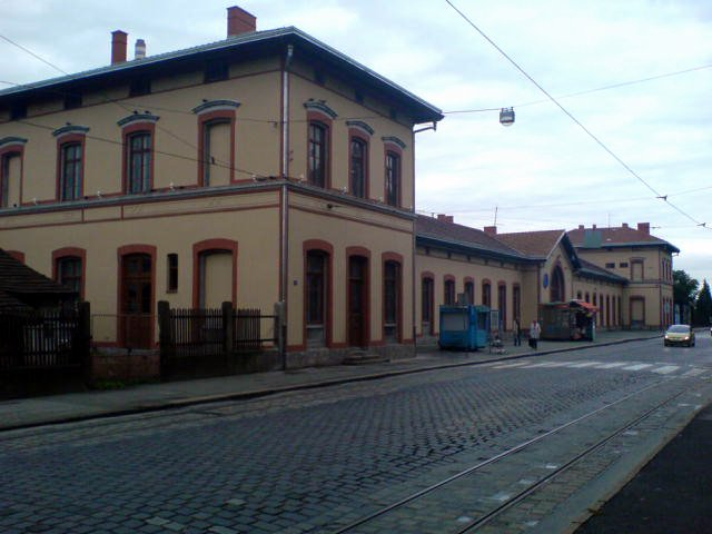 West Railway Station in Zagreb, Croatia